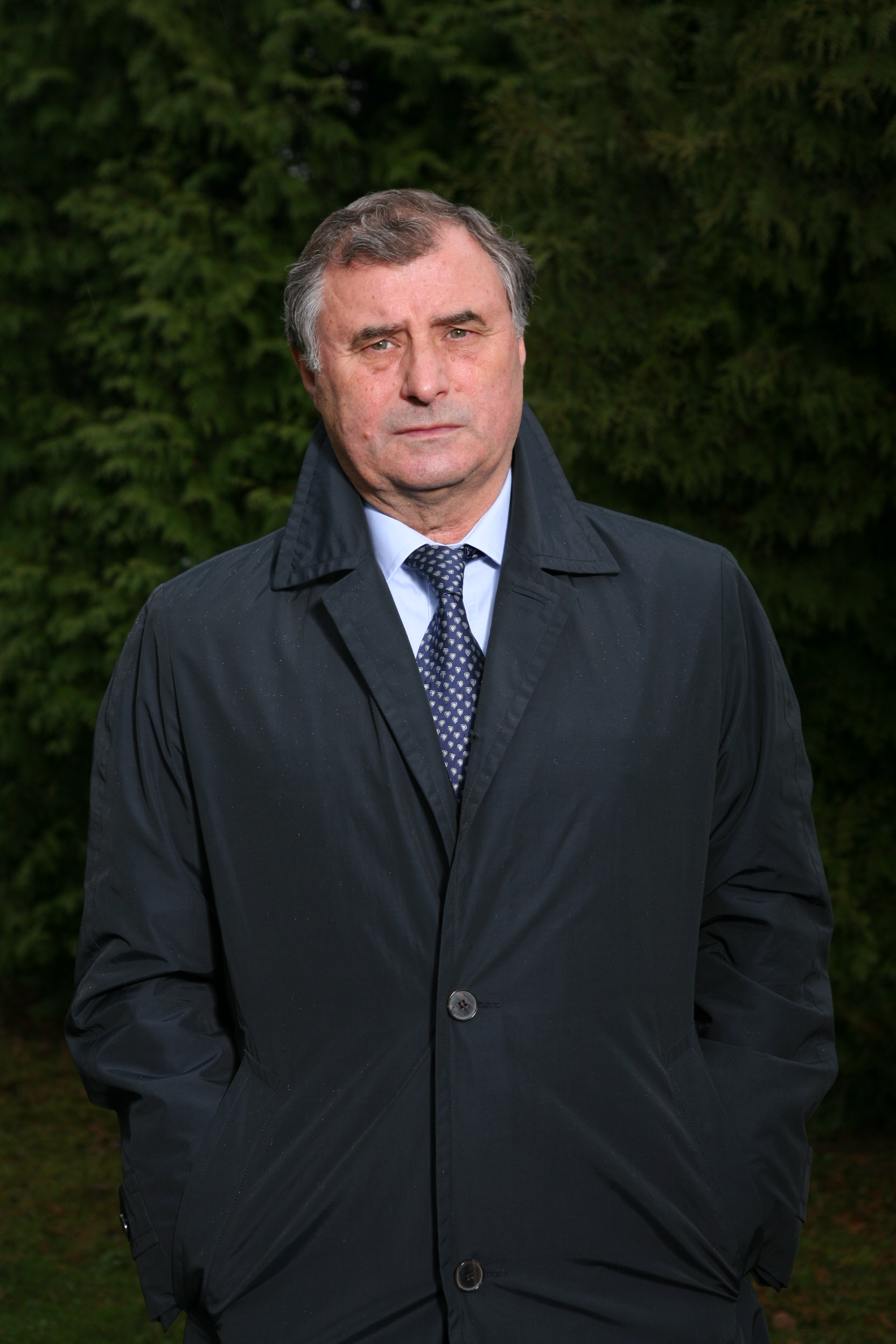 Anatoliy Byshovets